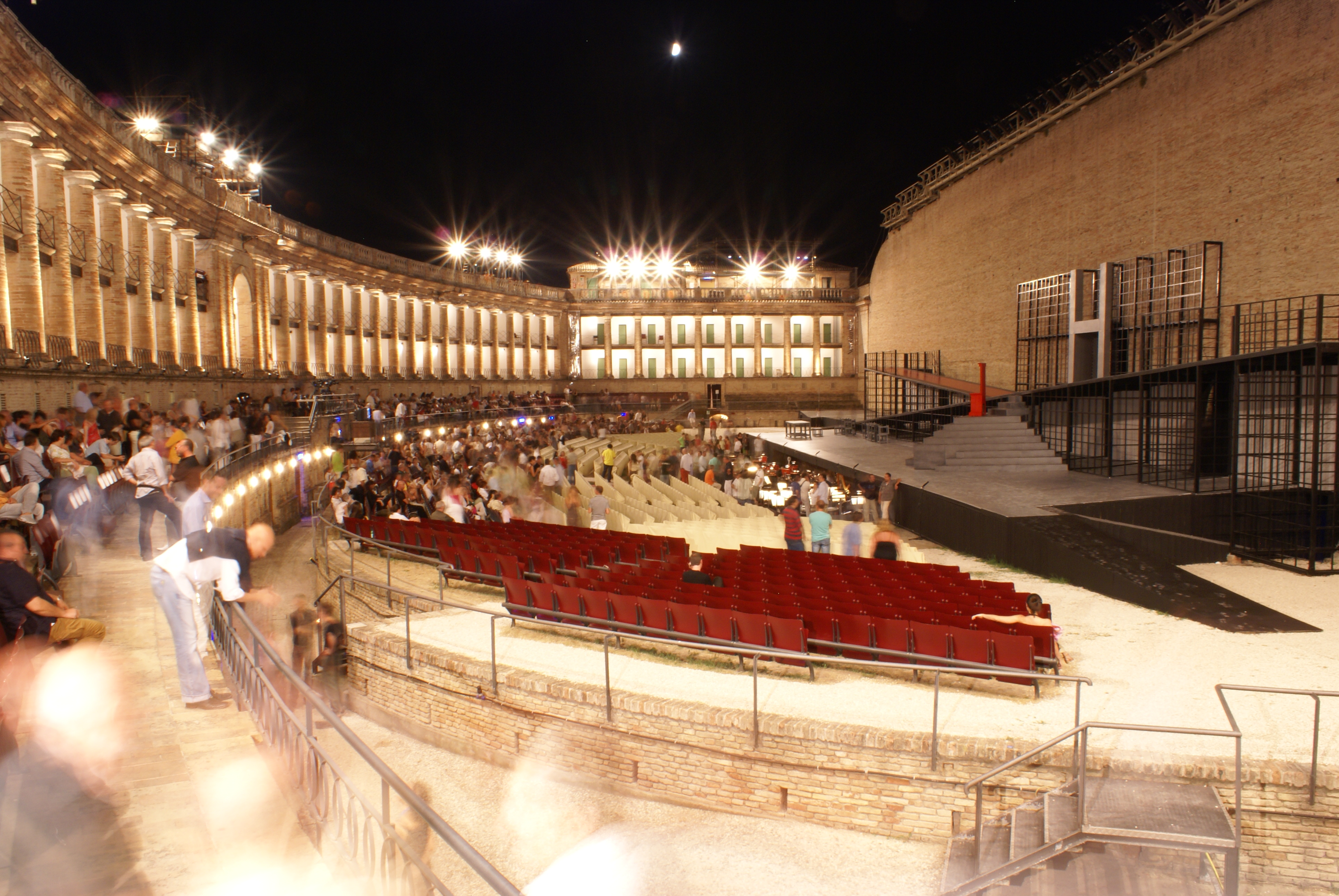 The Sferisterio in Macerata, a large open-air theatre erected from 1820 to 1829 as a playing field for a local ball game, now houses a yearly opera festival in the summer. Its website can be found at [1]. Here, the Sferisterio is shown two nights before the Premiere of the summer 2007 opera festival. The dress rehearsal of "Macbeth" is about to start.